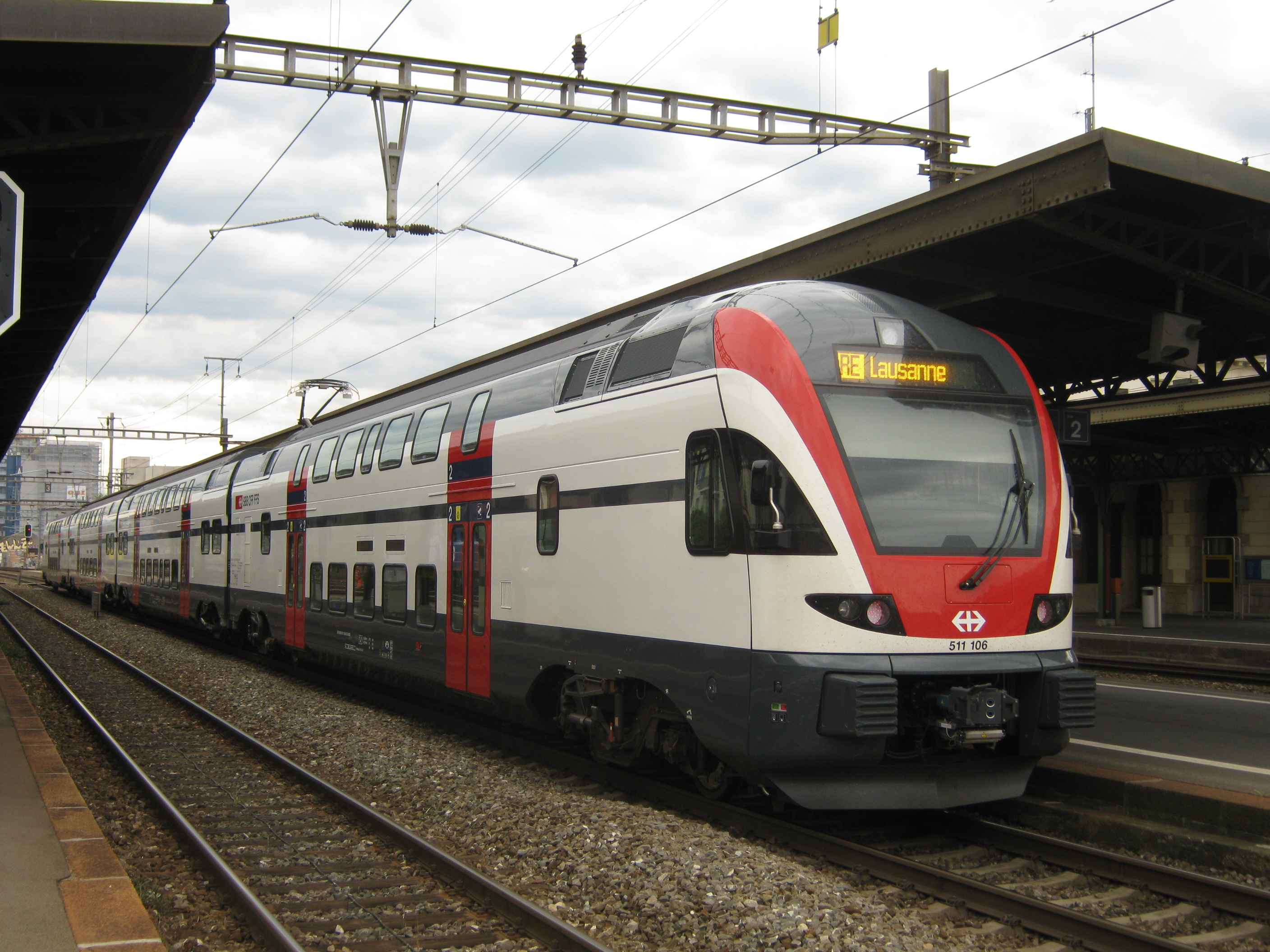 The double-deck regional train RABe 511 "KISS" in Renens. Rear view